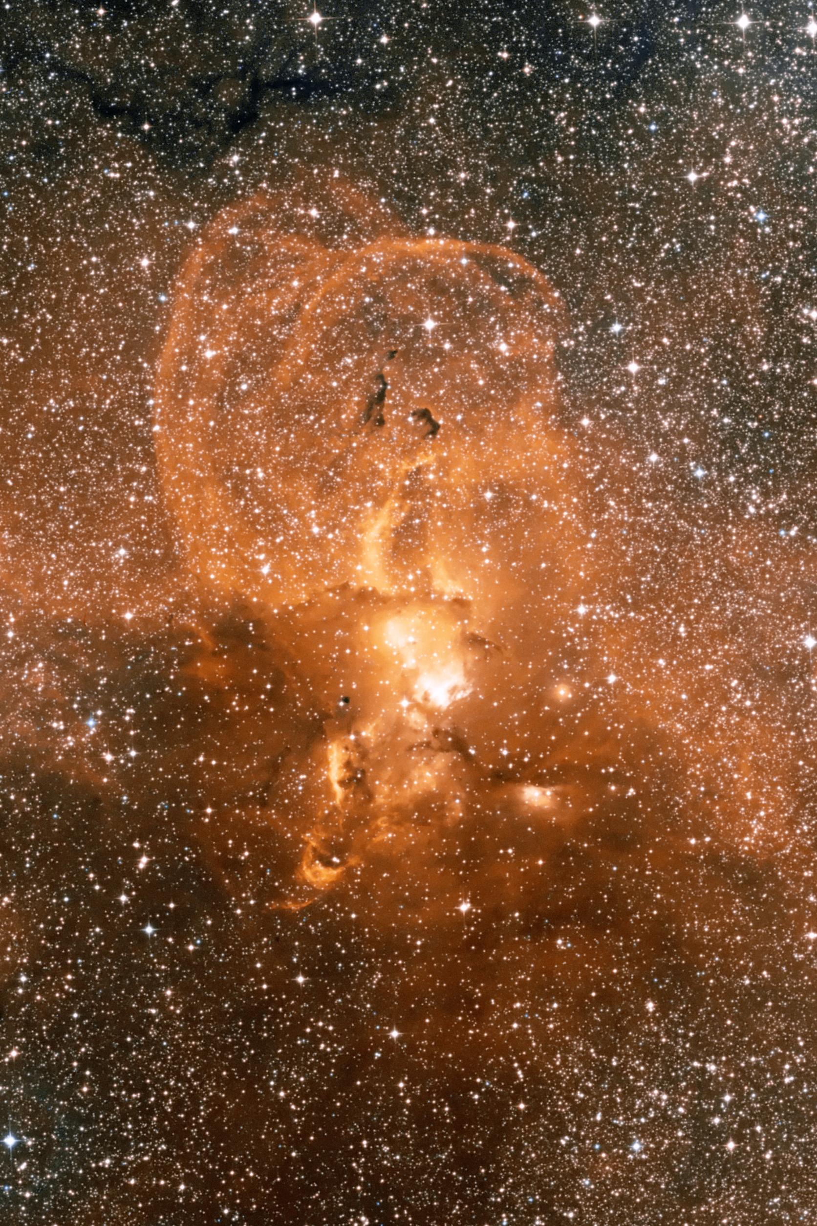 An image of NGC 3576 taken on the ground by the Digitized Sky Survey 2. The glowing clouds of hydrogen gas (seen here in orange) compose a vast emission nebula. The field of view is approximately 2.6 × 2.8 degrees.